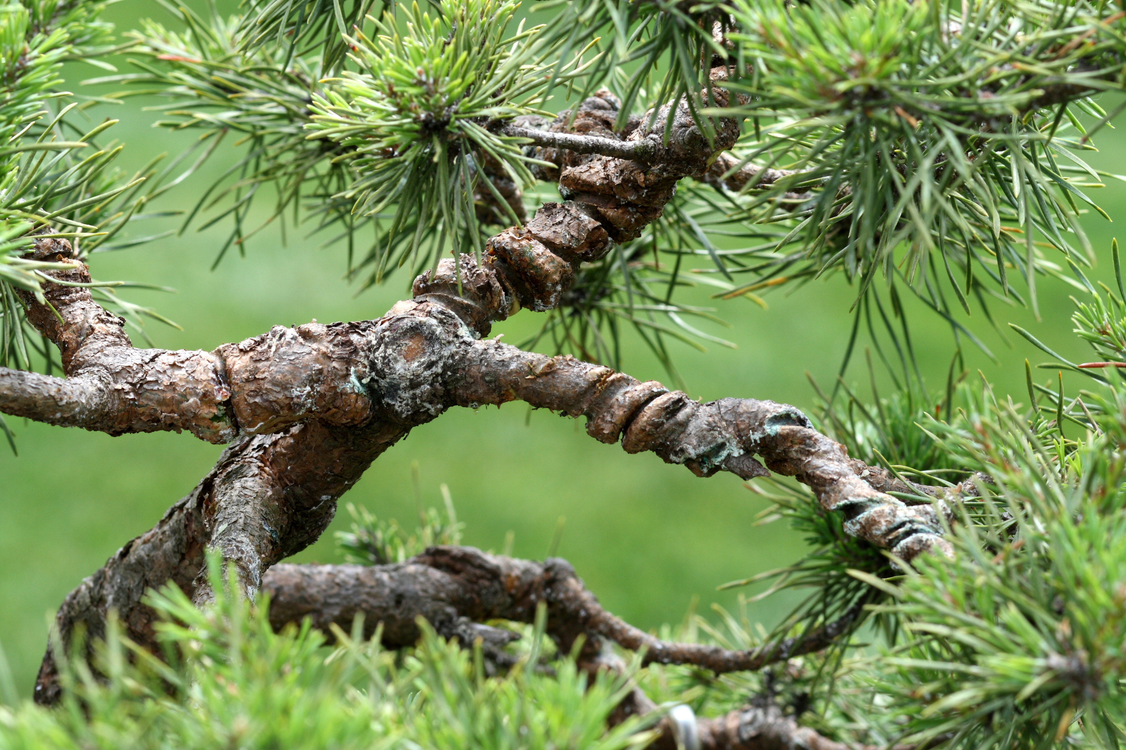 Deep wire scars on Scots Pine bonsai, immediately after wire was removed.